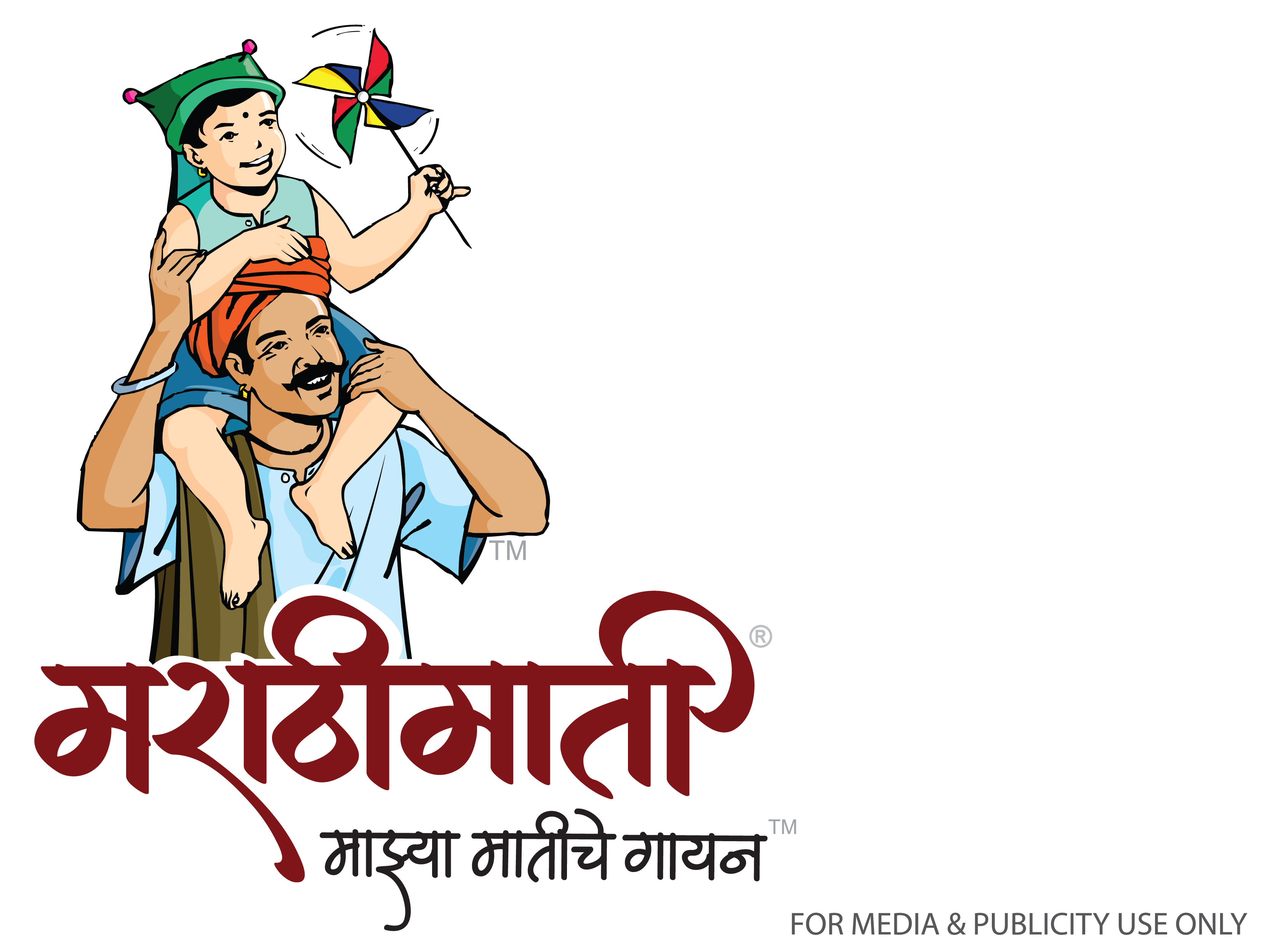 Official Brand Logo Symbol of Marathi Web Portal .